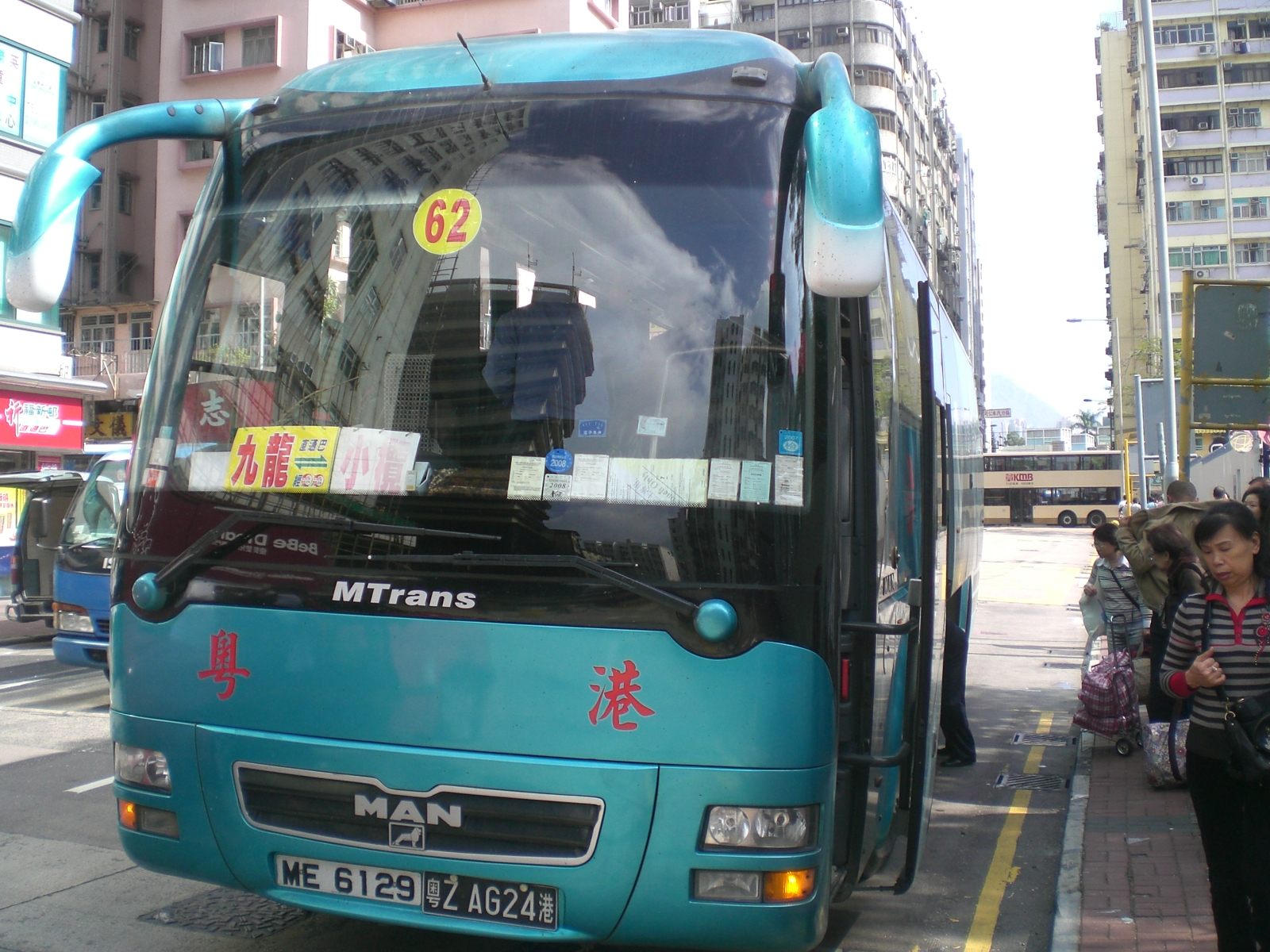 Playing Field Road, Kowloon, Hong Kong.